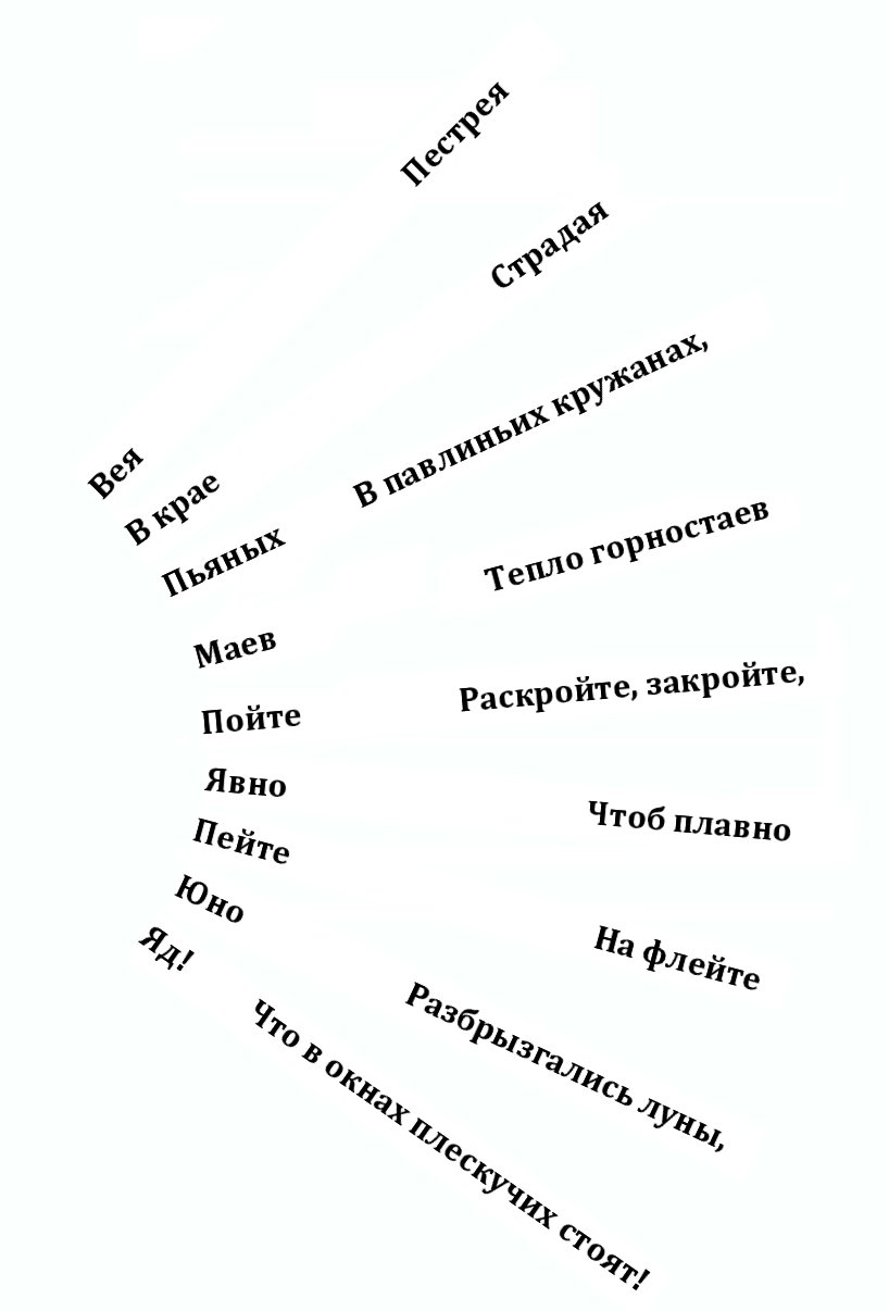 Sergei Tretyakov, poet-futurist from Russia 1892-1937 Here is the text of his poem Veer (The Fan)